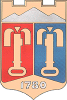 Pyatigorsk (Stavropol kray), coat of arms